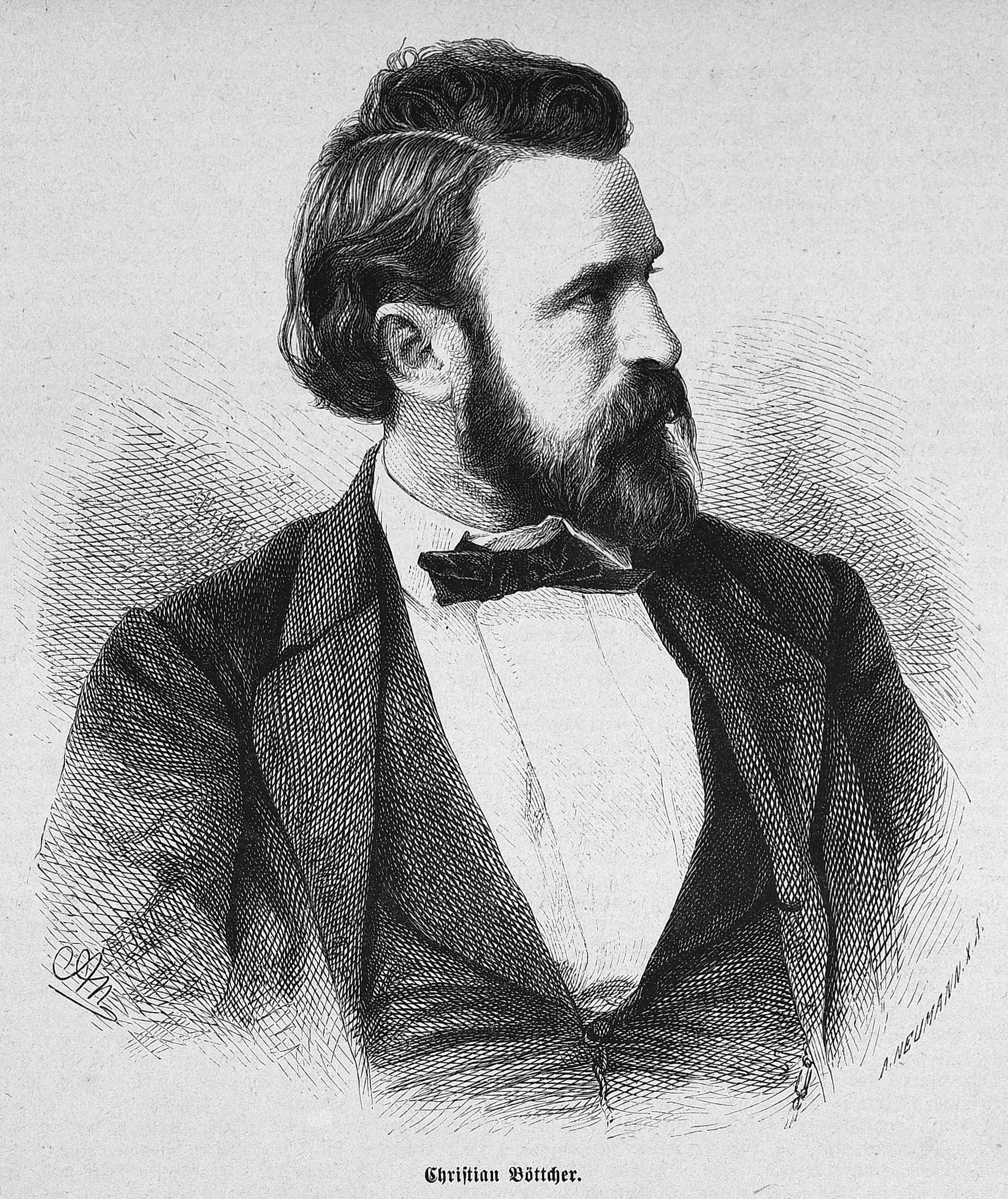 caption: "Christian Böttcher."